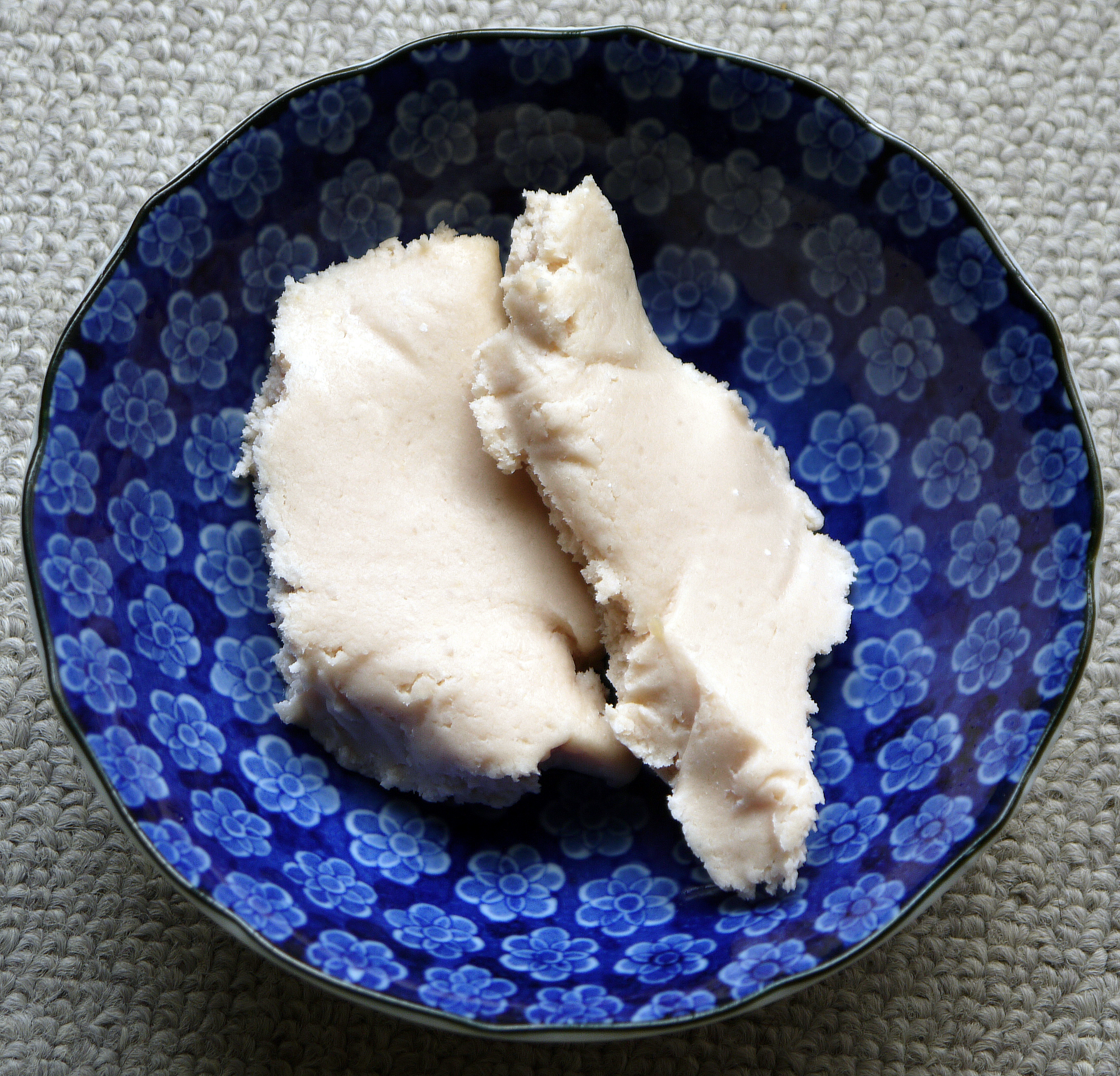 Japanese Sakekasu